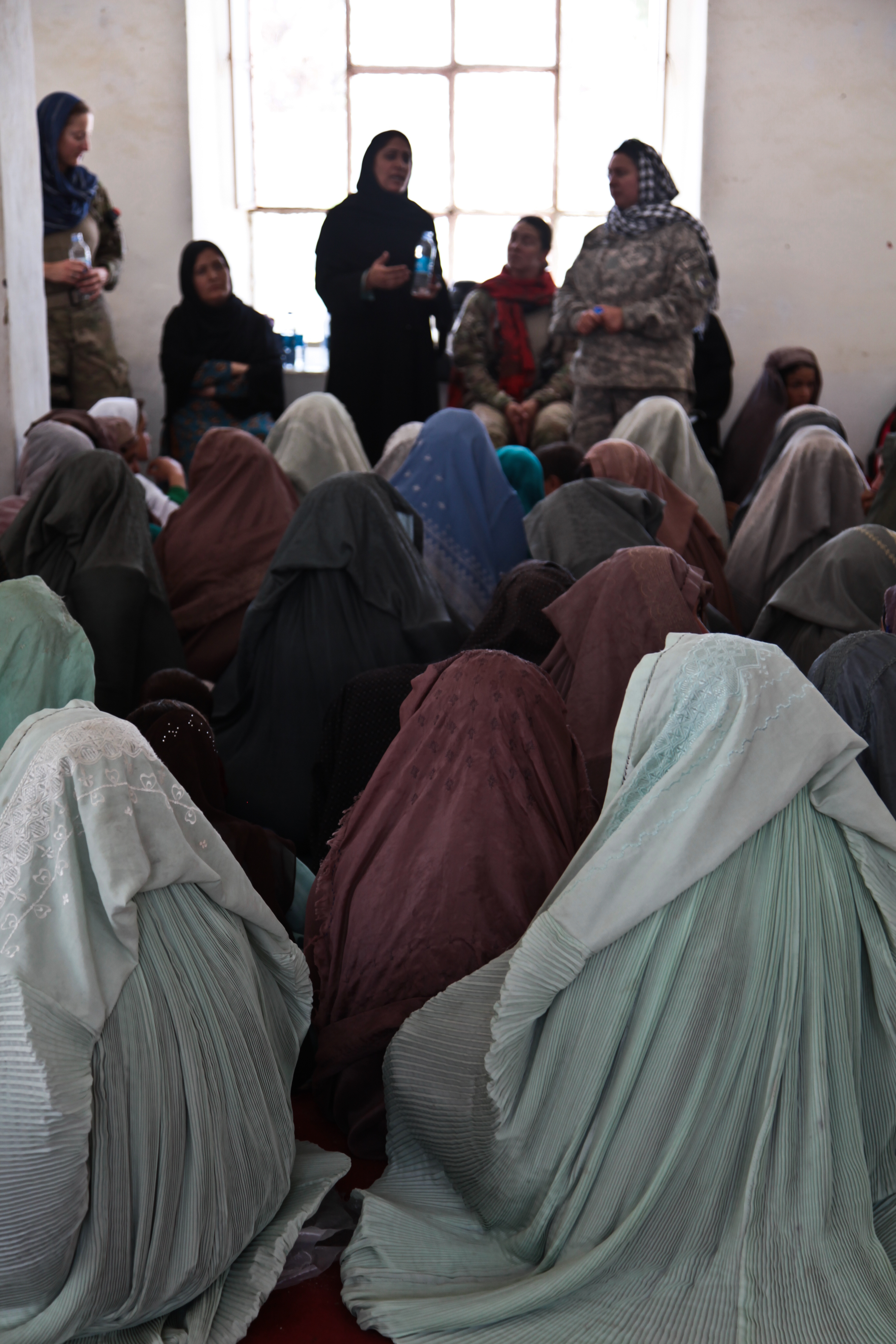 A crows of local national females listens to a speaker at the district center in Spin Boldak City, Kandahar province, Afghanistan, Sept. 18, 2011. More than 130 national females and their children attended the female health education event in which Dr. Mahjaben and the Kandahar Provincial Directorate of Women's Affairs Mim Roqiyah Achackyzi gave them information. (Photo by: Spc. Kristina Truluck, 55th Signal Company)